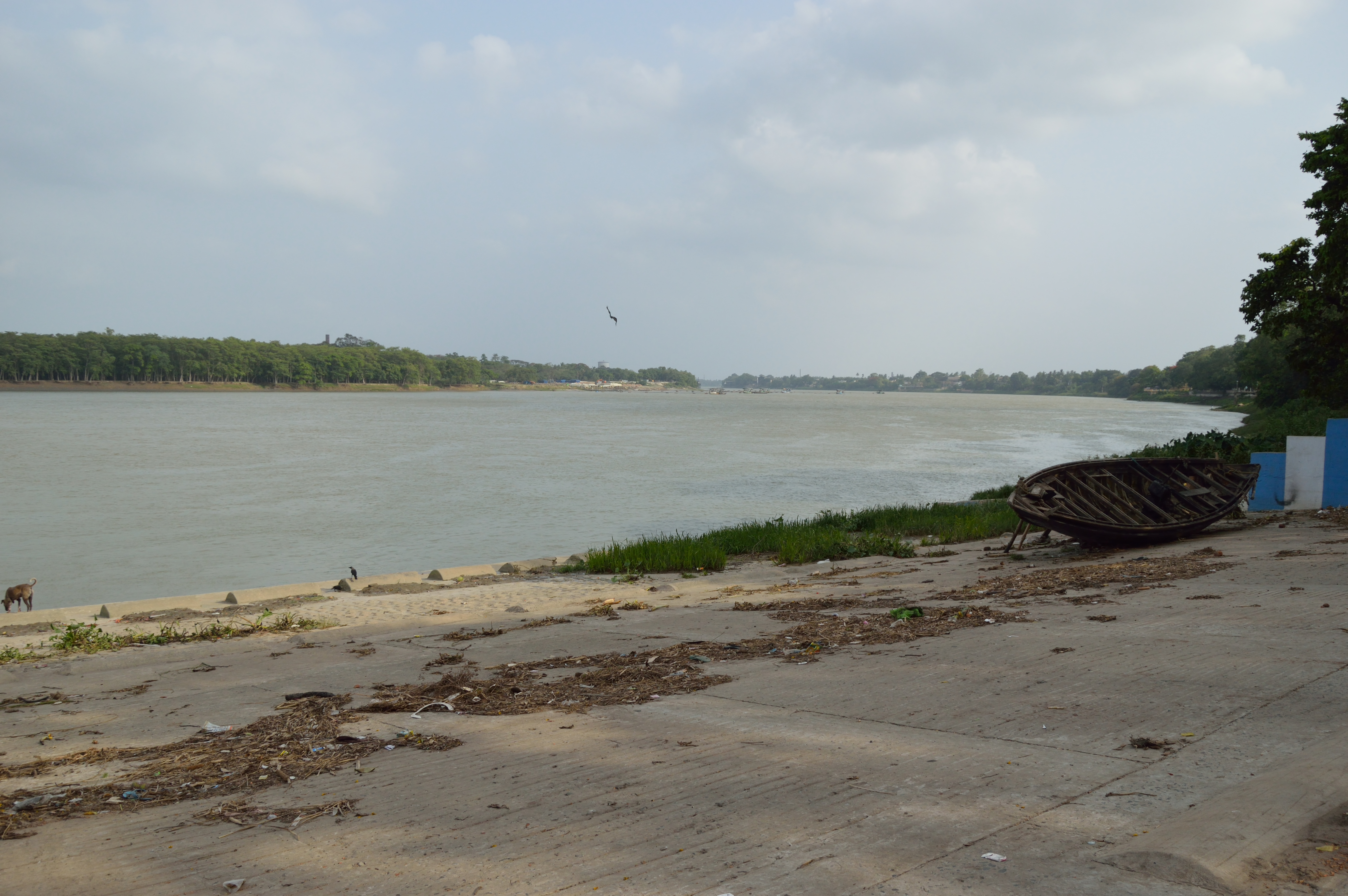 Photographed at Chandan Nagar or Chandannagar or Chandernagor in Hooghly, West Bengal.